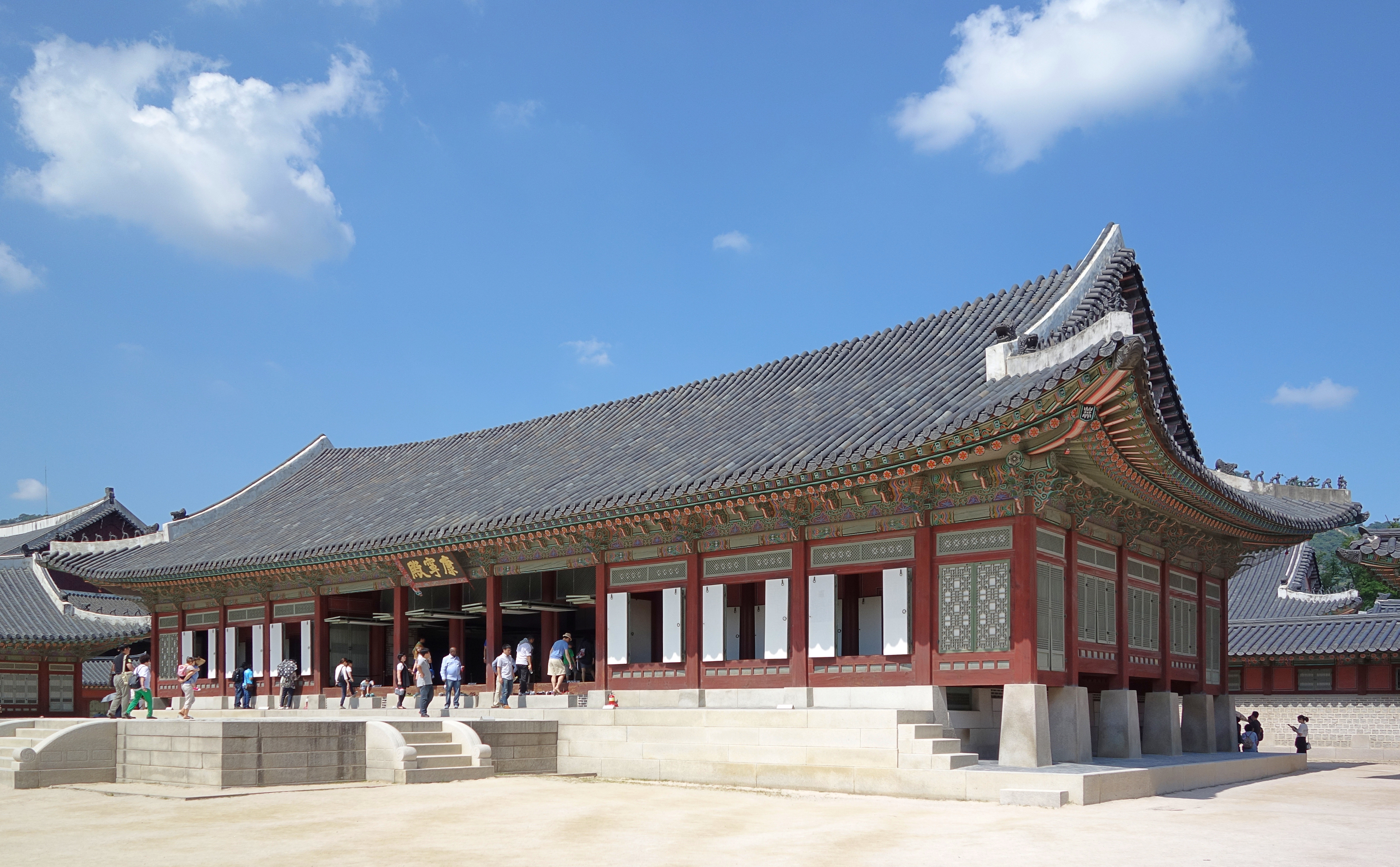 Gangnyeongjeon, the king's quarters, in Gyeongbokgung Palace, Seoul, South Korea